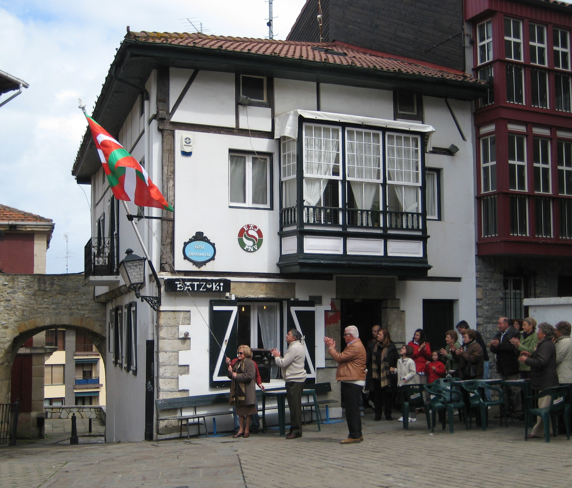 Rising of the Ikurrina (basque flag) during Aberri Eguna (Day of the Homeland) of 2009 before the batzoki (club of the Basque Nationalist Party) of Plentzia.